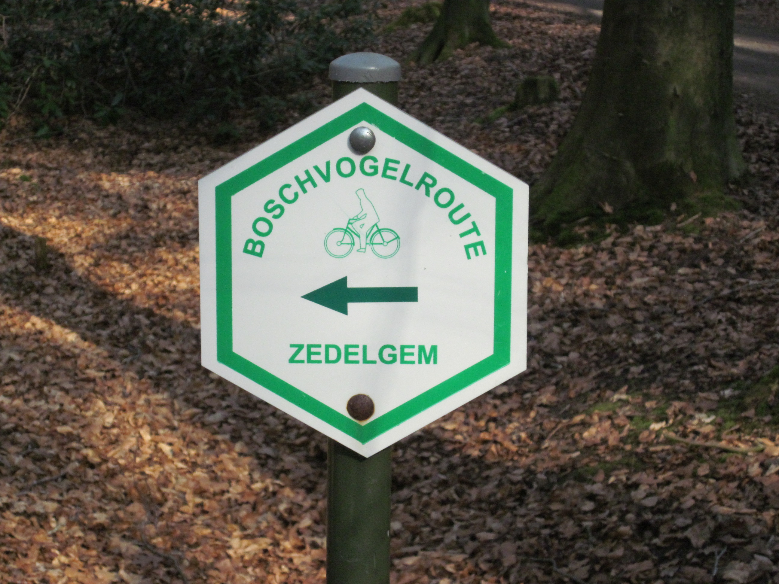 Boschvogel route sign, Zedelgem, Belgium